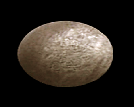 TNO (20000) Varuna as it would appear as an ellipsoid.